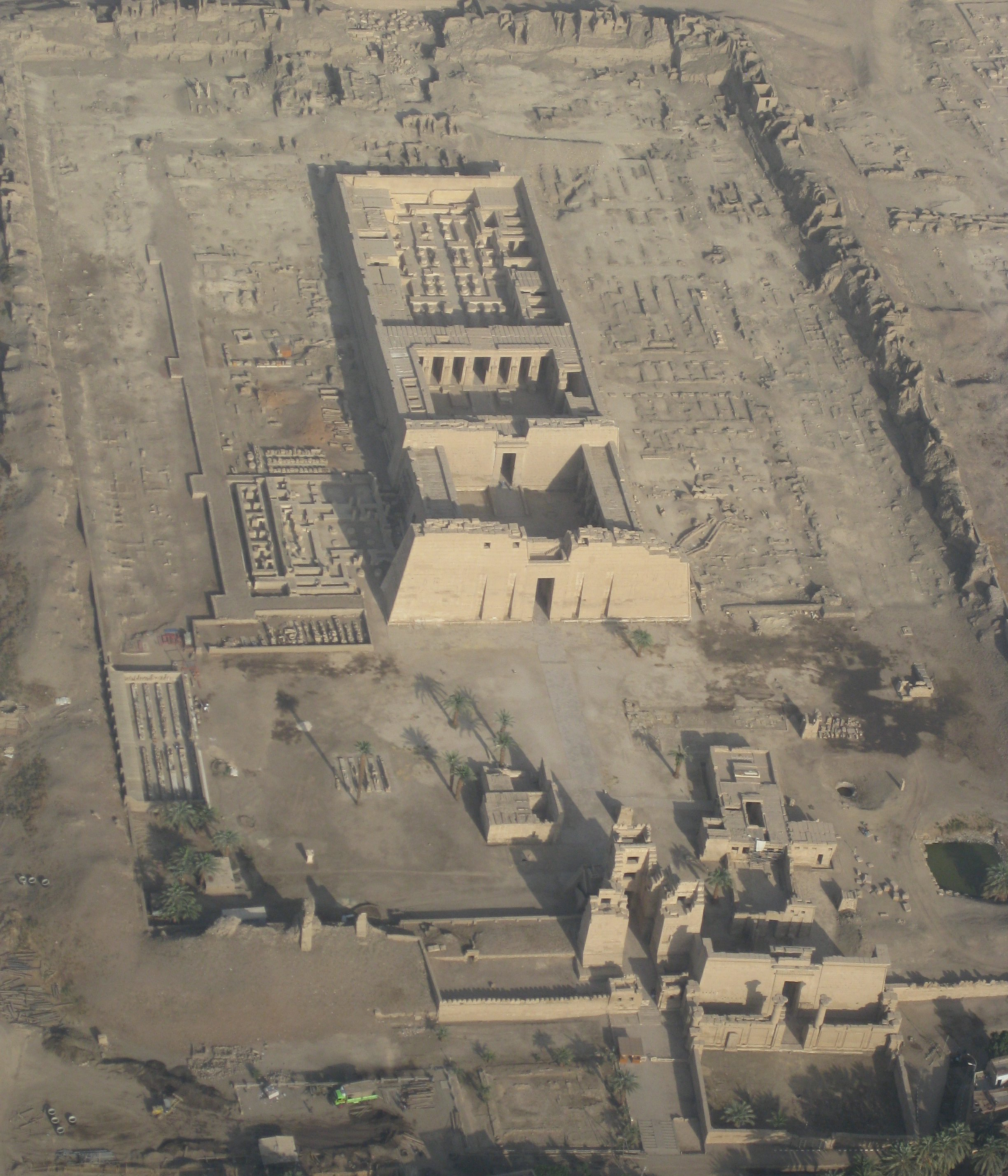 The temple complex of Medinet Habu. Cropped to leave out most of the modern buildings nearby but include all the remains of the subsidiary structures and the Small Temple.